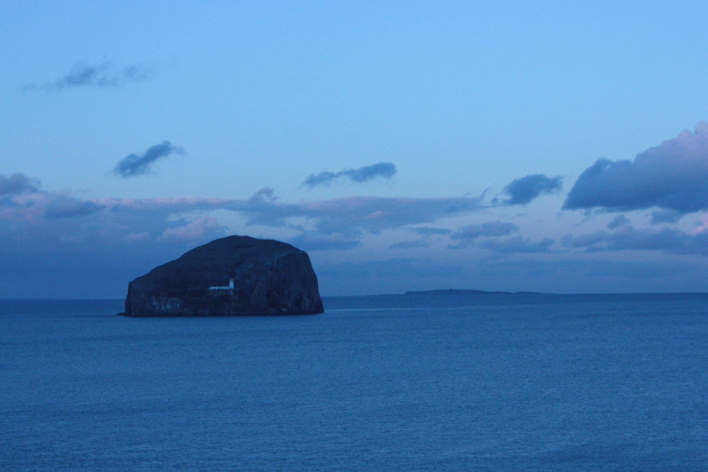 viewing north into Forth to Bass Rock from Tantallon Castle